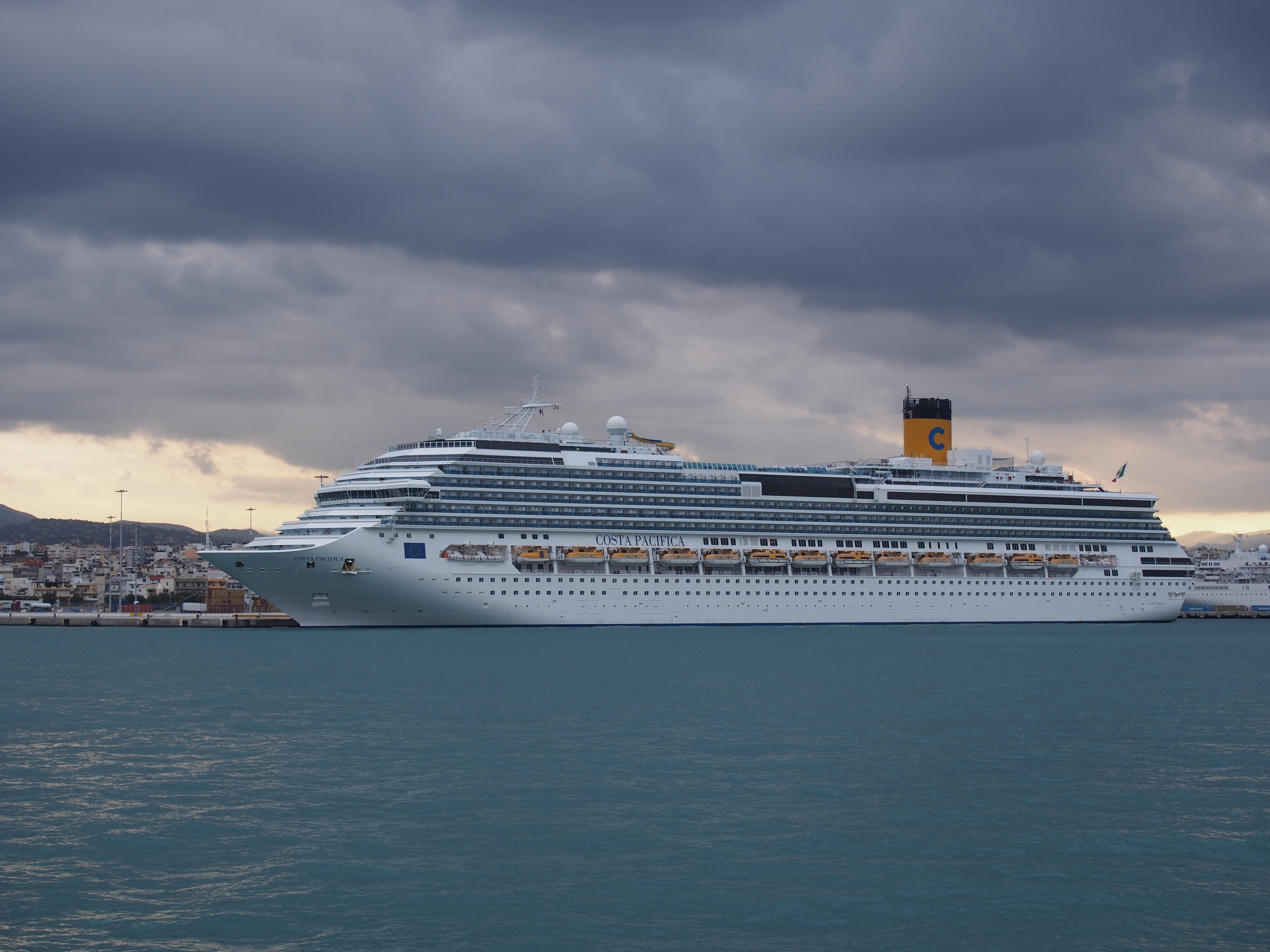 Costa Pacifica in Heraklio